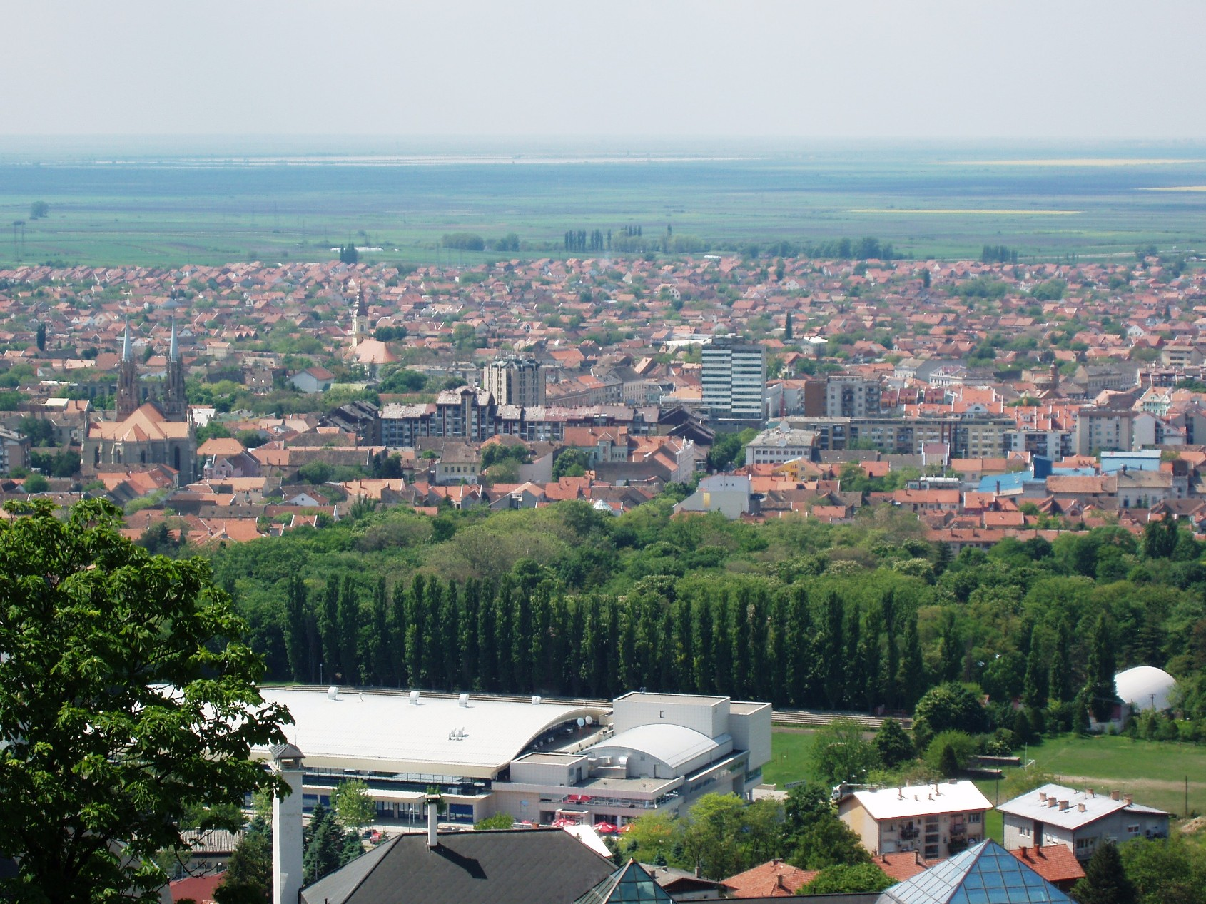 Panoramic view of Vršac, Vojvodina, Serbia